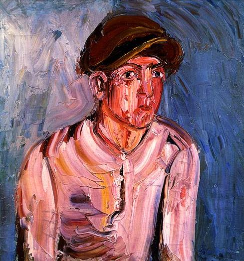 "Portrait of a Young Man"